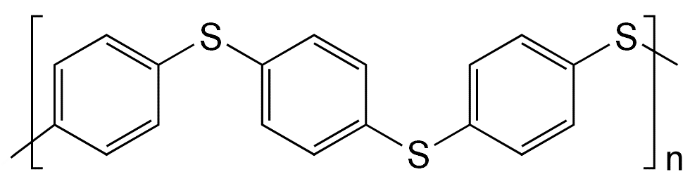 Chemical structure of poly(p-phenylene sulfide).